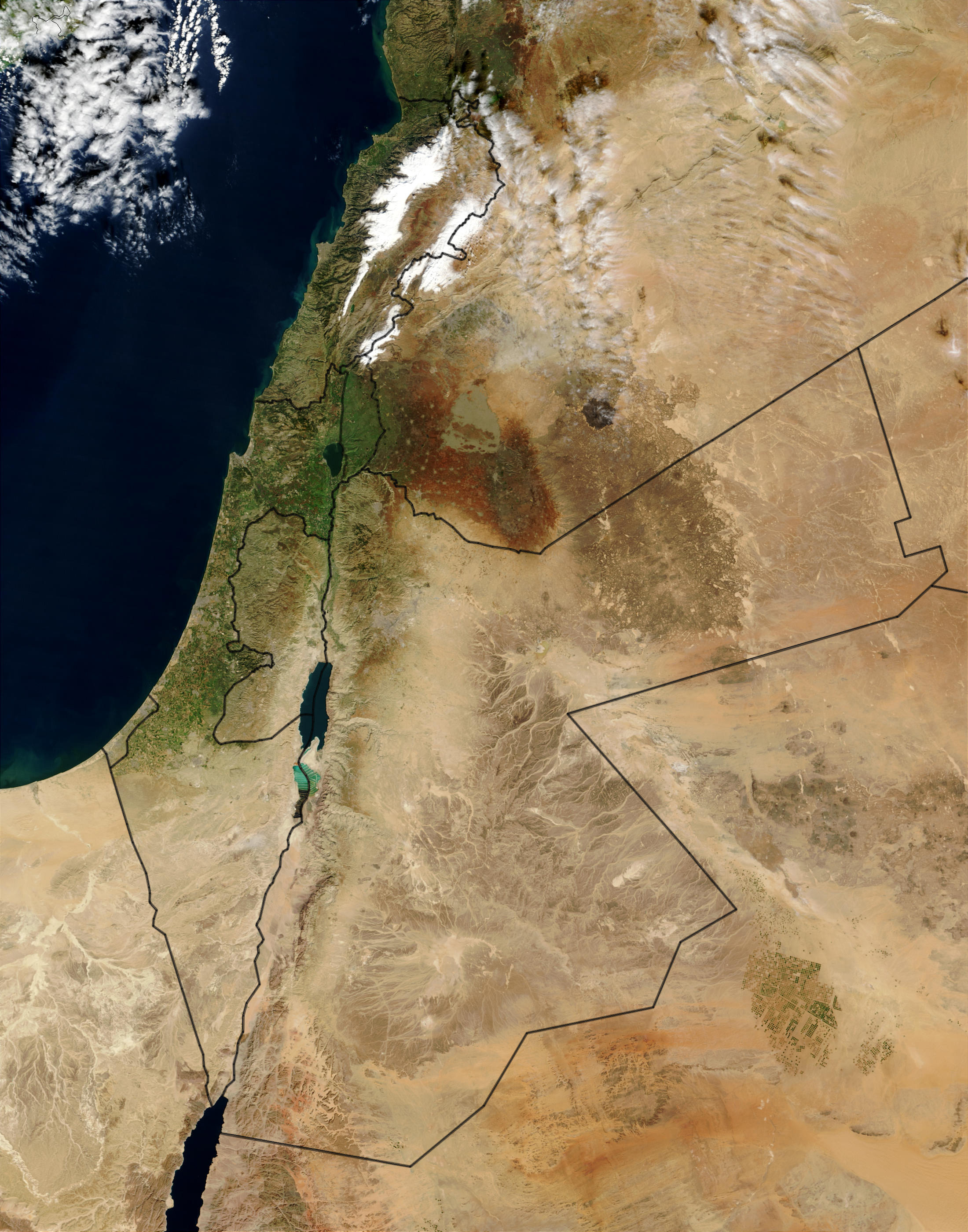 This Moderate Resolution Imaging Spectroradiometer (MODIS) image from the Terra satellite shows the Mediterranean Sea (left) and portions of the Middle East. Countries pictured are (clockwise from top right) Syria, Iraq, Saudi Arabia, Egypt (across the Gulf of Aqaba), Israel, the disputed West Bank Territory, and Lebanon. In the center is Jordan. The lush, green vegetation along the Mediterranean coast and surrounding the Sea of Galilee (Lake Tiberias) in northern Israel and stands in marked contrast to the arid landscape all around. In Lebanon (and the border of Lebanon and Syria), bright white snow covers the peaks of the Jebel Liban Mountains. In the bottom right, a few scattered plots of green stand out against the orange sands of the deserts of Saudi Arabia.